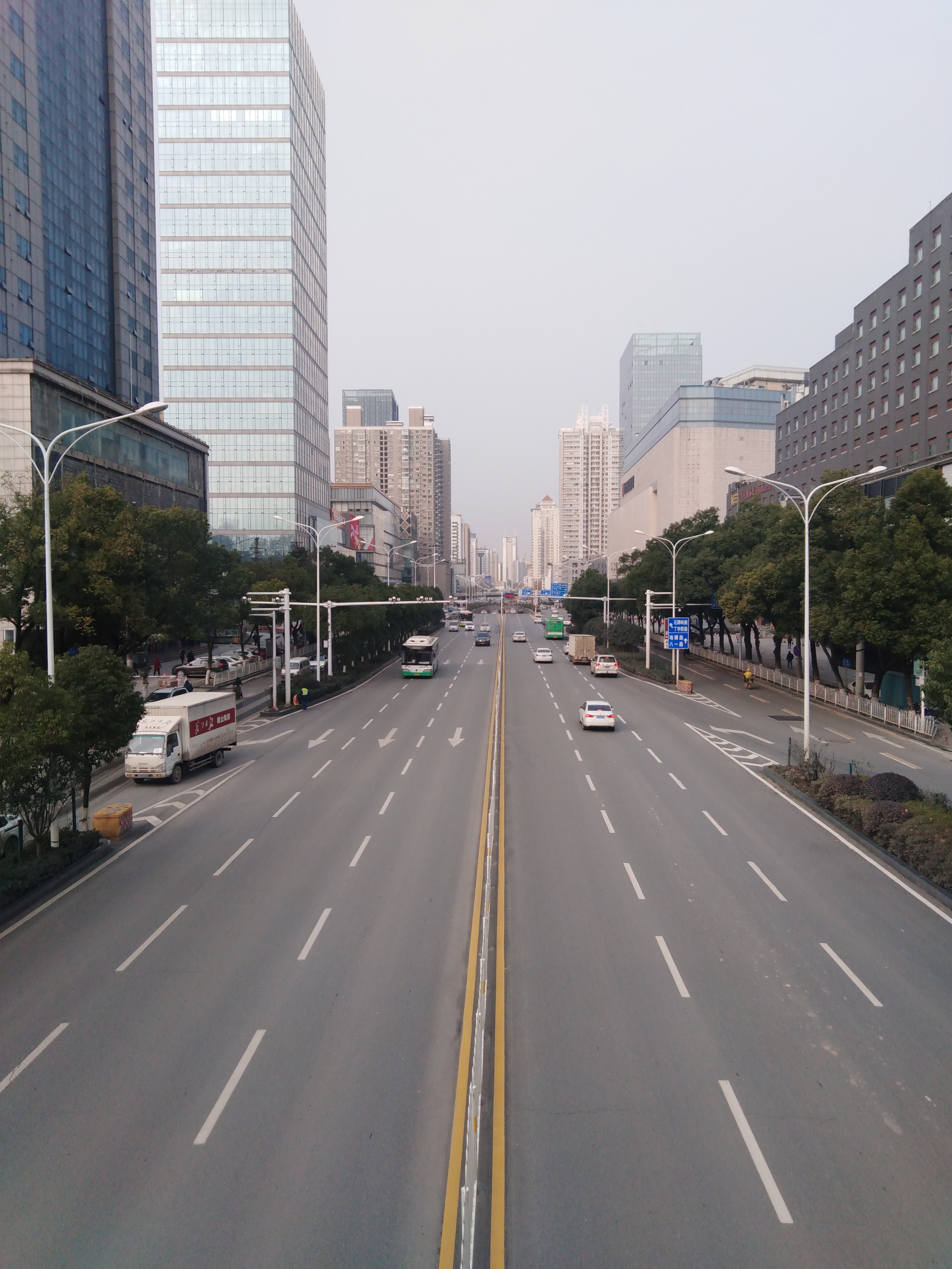 View to the west from above Luoyu Rd (珞喻路), Hongshan, Wuhan, Hubei, China